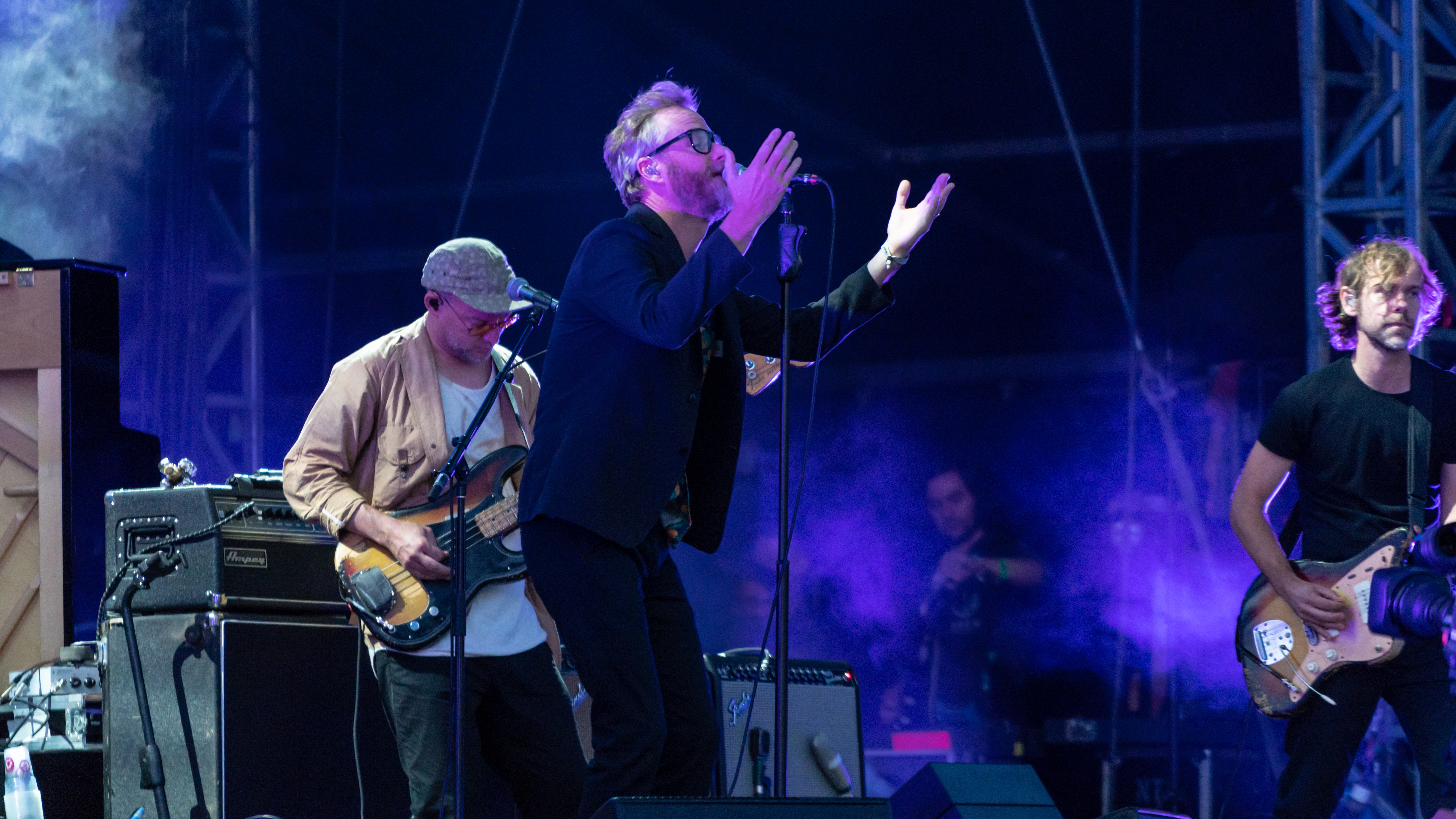 APENationalVicPark020618-114